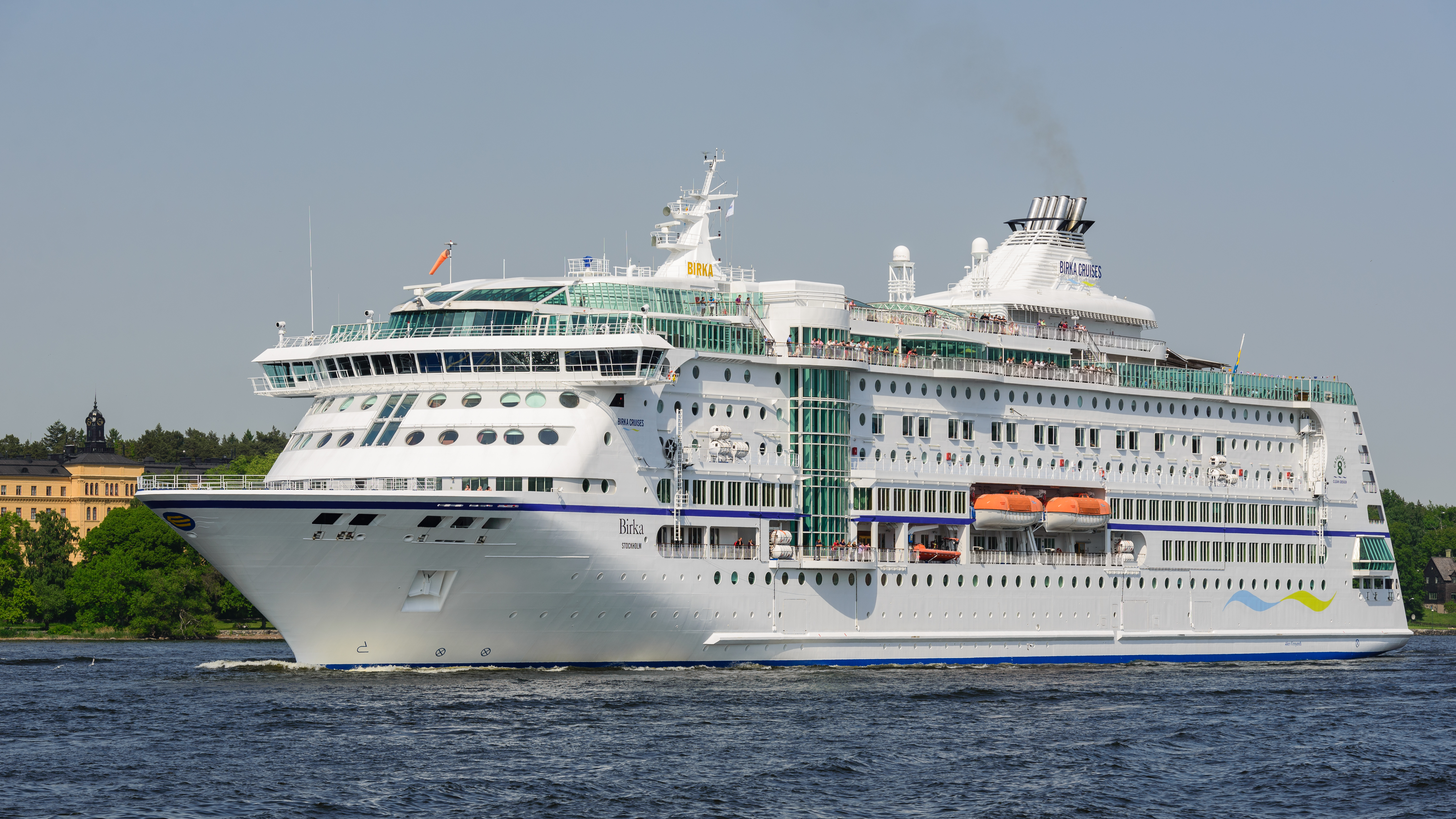 Birka Stockholm (formerly Birka Paradise) in Stockholm, June 2013.